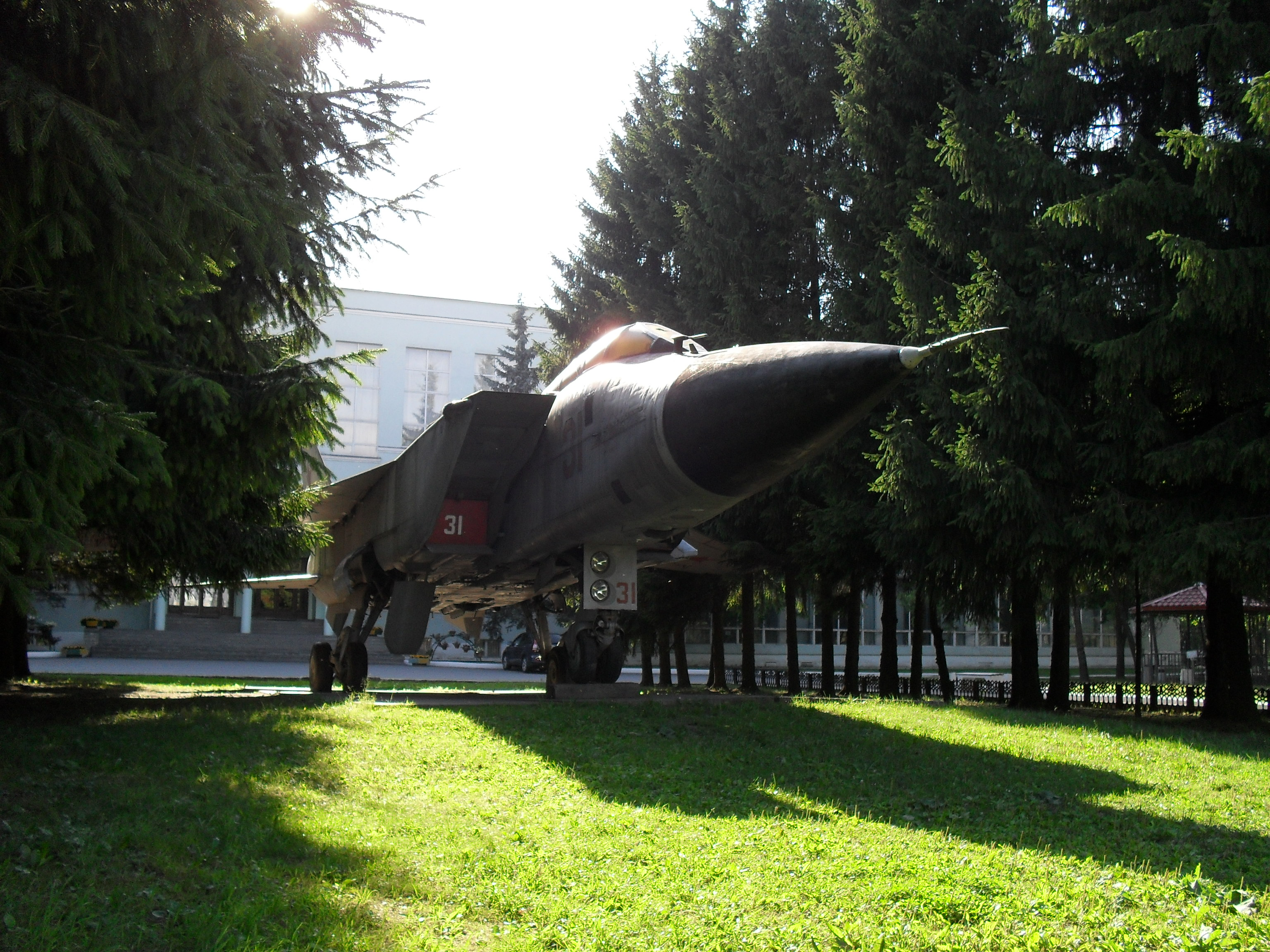 MiG-31 statue at SPbGUGA entrance